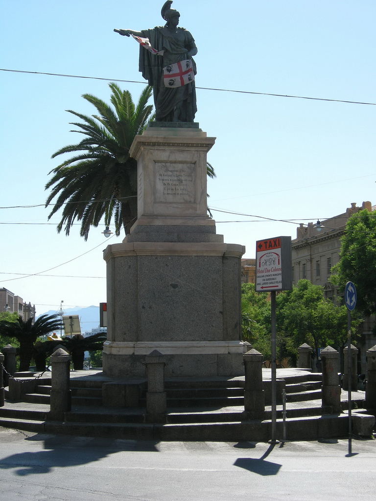 Statue of Carlo Felice in Cagliari , Italy